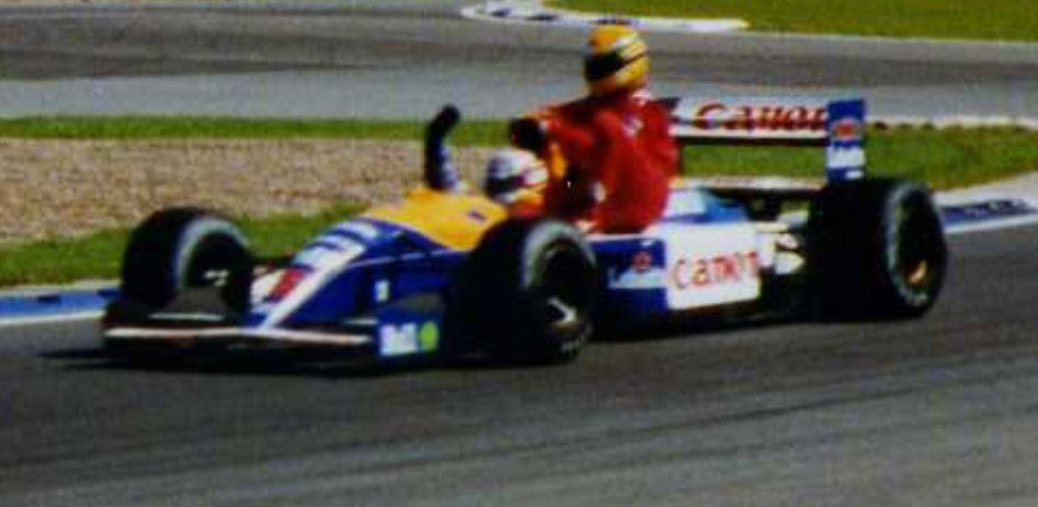 Nigel Mansell gives Ayrton Senna a lift back to the pits on the sidepod of his Williams FW14, after Senna's own McLaren MP4/6 ran out of fuel on the final lap. (Tight crop)